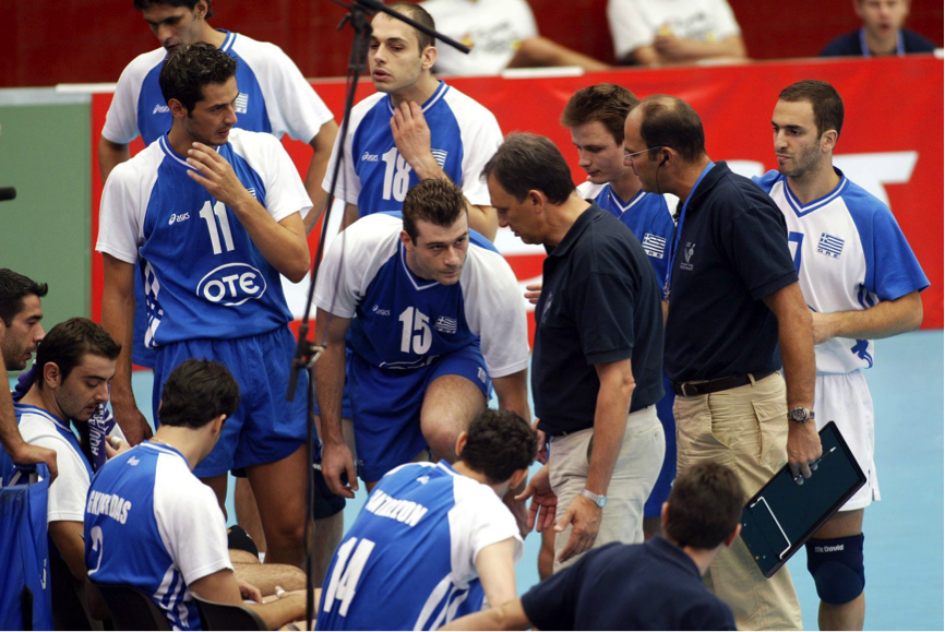 Stelios Prosalikas coaching Greek National Team